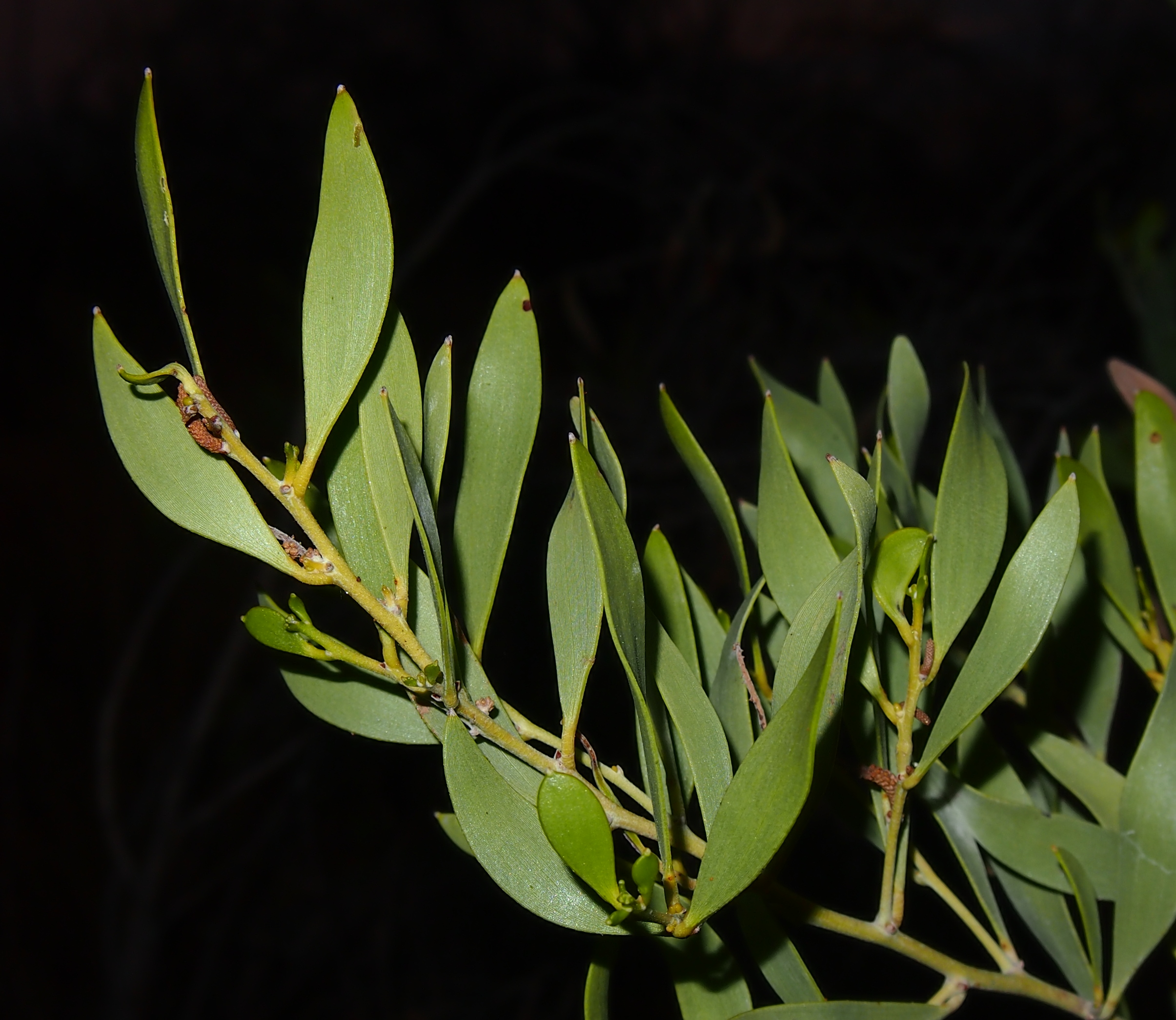 Acacia acradenia foliage and flower buds